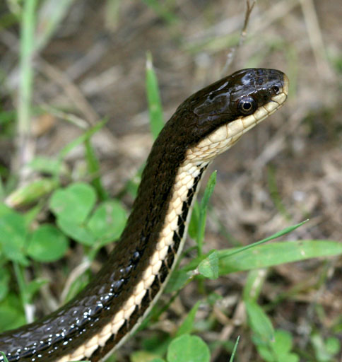 Queen Snake, Regina septemvittata. Location: Eno River State Park, Orange County, North Carolina, United States